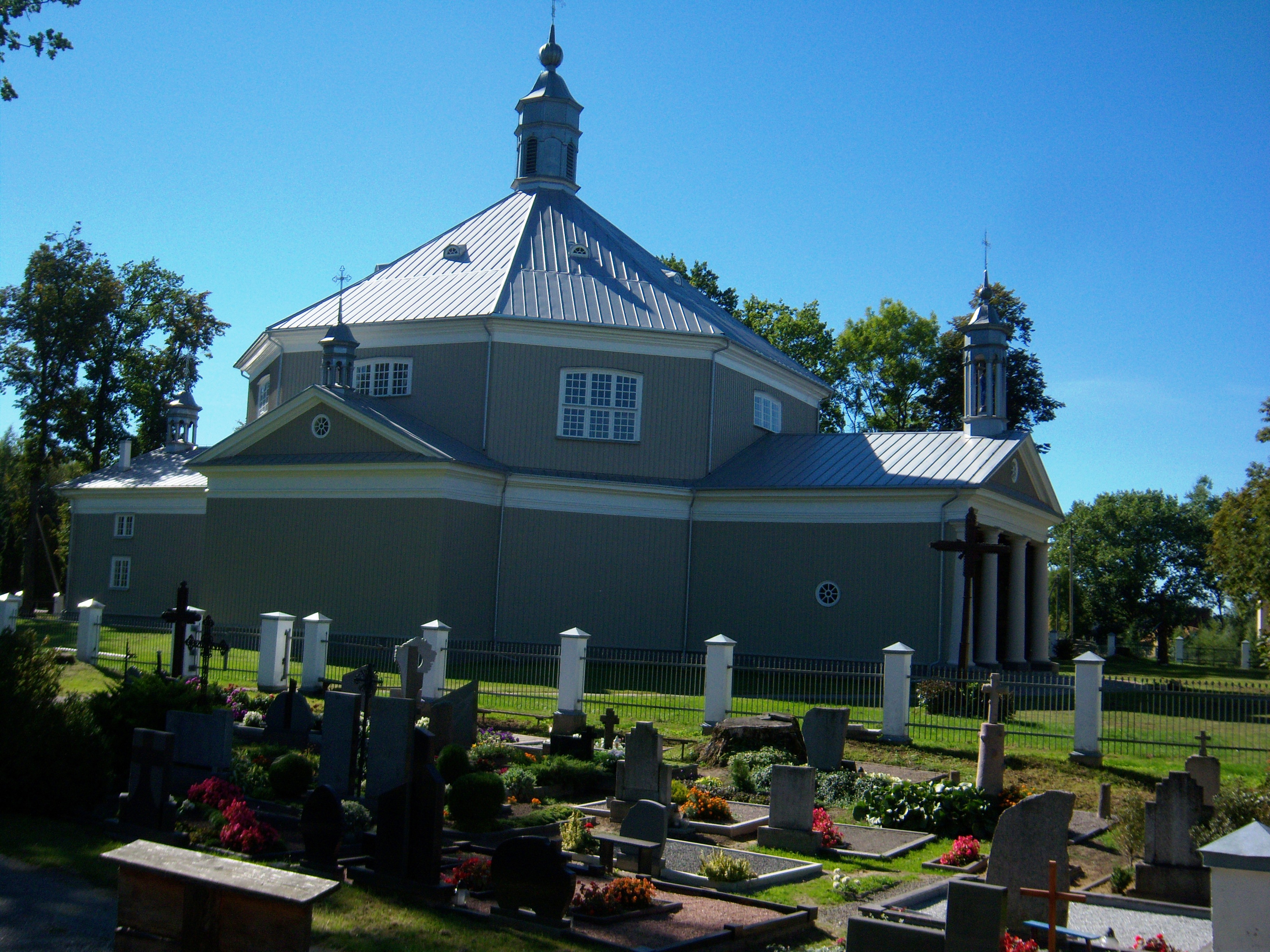 Catholic church in Griškabūdis, Šakiai District, Lithuania